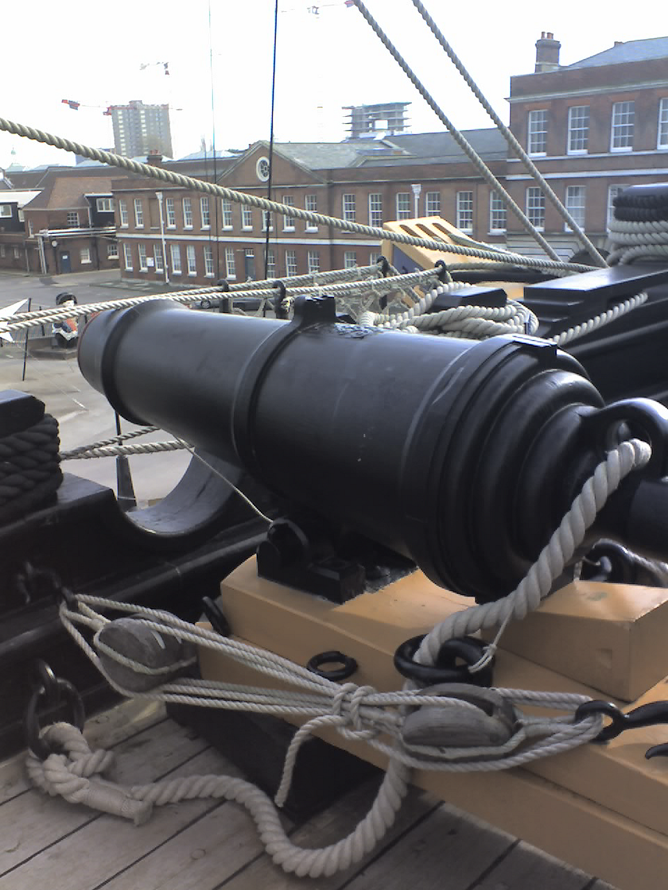 68-pdr carronade (probably replica) on forecastle of HMS Victory in Portsmouth Historic Dockyard, UK. Taken by me fFEb 07. The Land 19:06, 18 February 2007 (UTC)